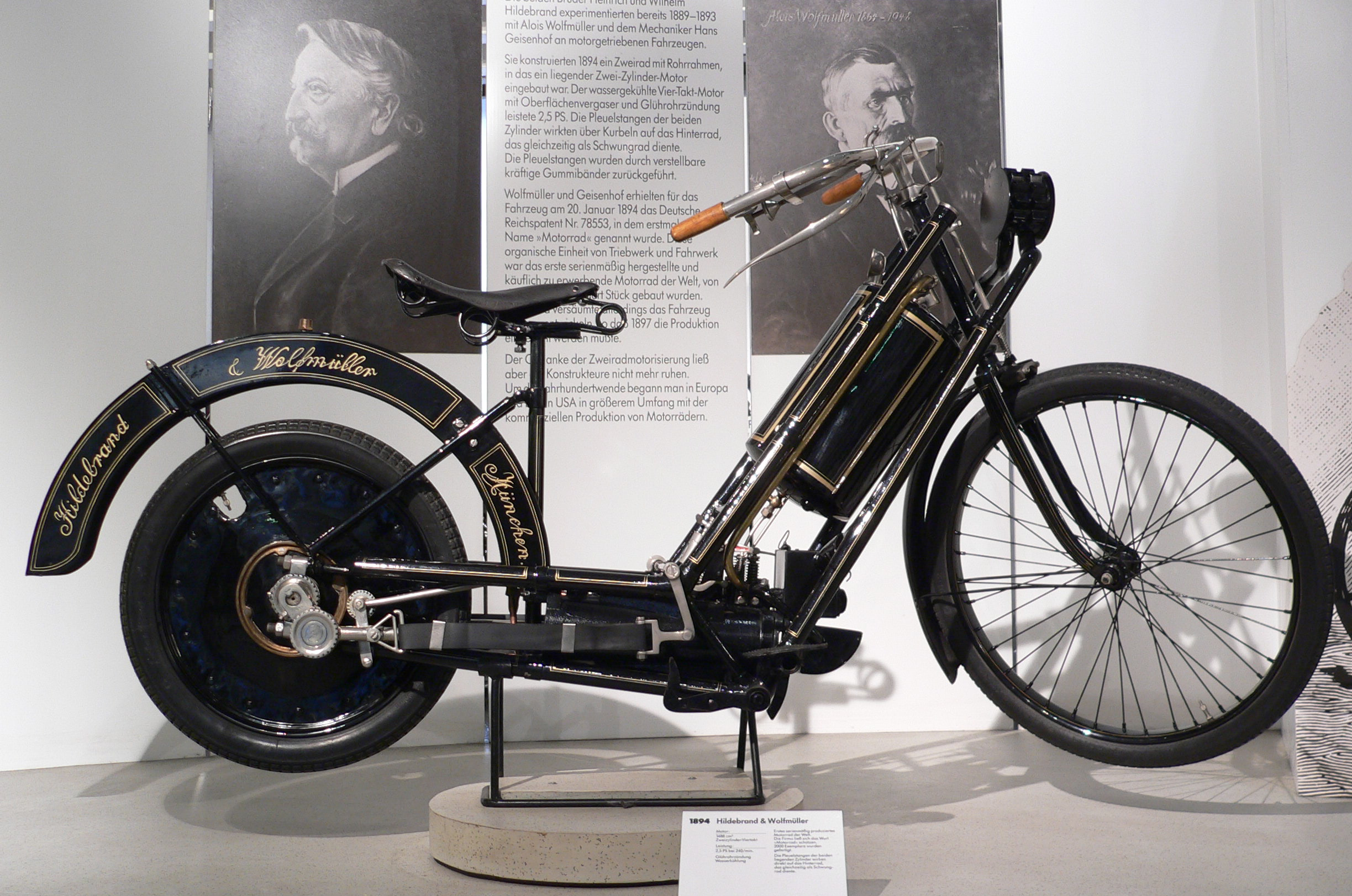 One of the first Motorbikes "Hildebrand und Wolfmüller" (1894) at the Deutsches Zweirad- und NSU-Museum